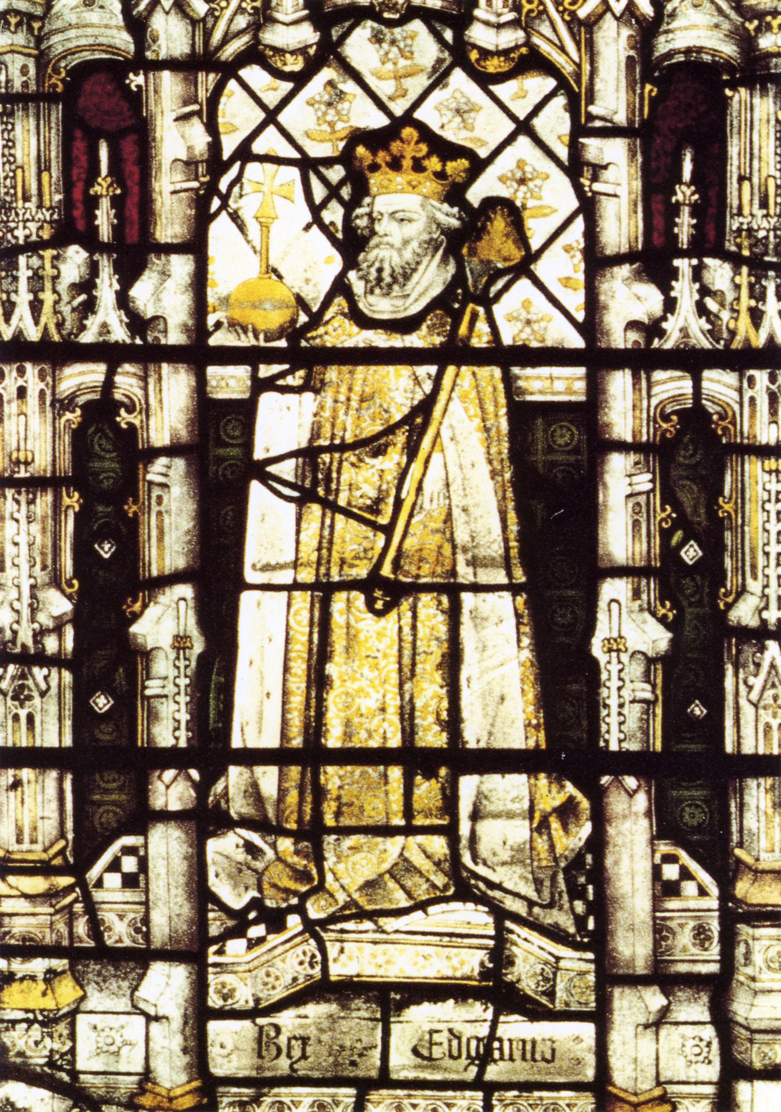 This image is a JPEG version of the original PNG image at File: King Edgar from All Souls College Chapel.png. Generally, this JPEG version should be used when displaying the file from Commons, in order to reduce the file size of thumbnail images. However, any edits to the image should be based on the original PNG version in order to prevent generation loss, and both versions should be updated. Do not make edits based on this version. See here for more information. Edgar, c.943-75. Stained glass window, All Souls College Chapel, Oxford. Originally obtained from Warden and Fellows of All Souls, Oxford. According to [1], "The large stained glass window [containing this image] in the west wall is known as the Royal Window. Dating from the mid-15th-century but much restored, it was originally located in the Old Library of All Souls."